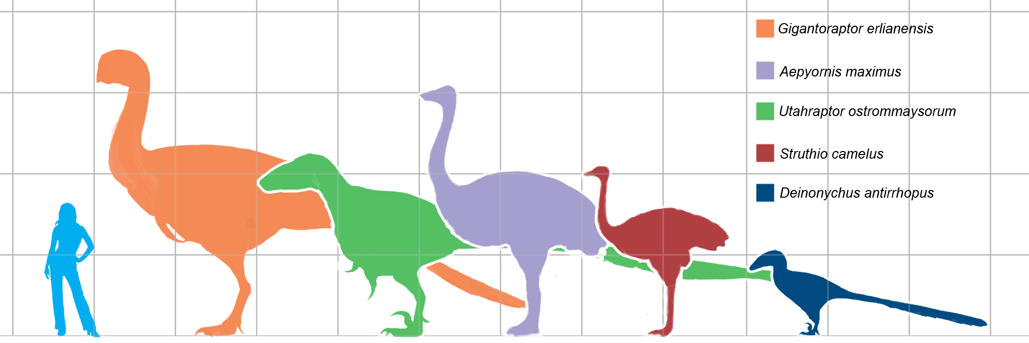 Size comparison of several giant theropods from various periods of geologic time, with modern human for scale. Each grid segment = 1 square meter. Gigantoraptor erlianensis (Gigantoraptor, Oviraptoridae, Caenagnathoidea, Theropoda, Saurischia) Aepyornis maximus (Aepyornis, Aepyornithidae, Aepyornithiformes) Utahraptor ostrommaysorum (Utahraptor, Dromaeosauridae, Theropoda, Saurischia) Struthio camelus (Struthio, Struthionidae, Struthioniformes) Deinonychus antirrhopus (Deinonychus, Velociraptorinae, Dromaeosauridae, Deinonychosauria, Theropoda, Saurischia)